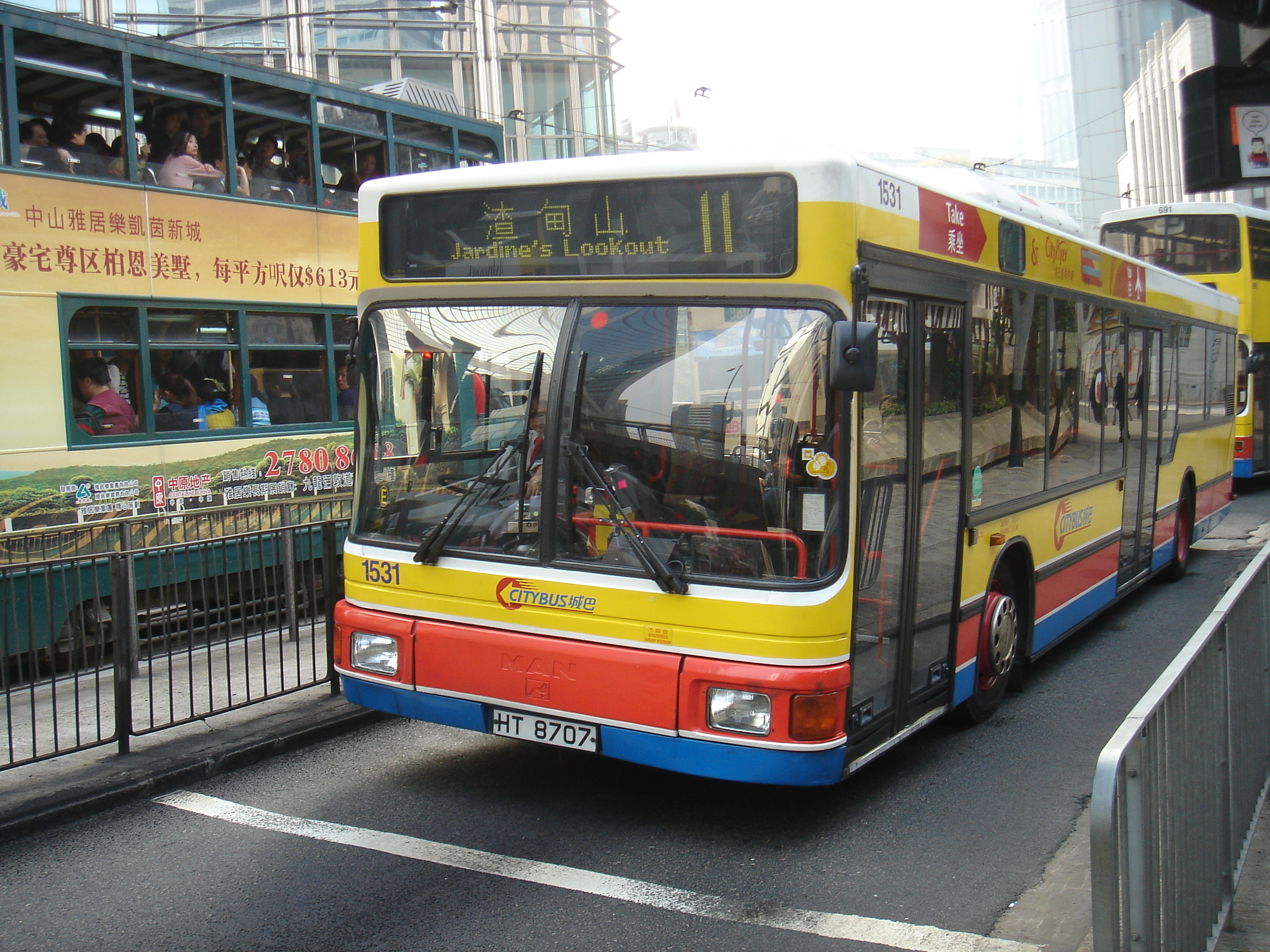 MAN AG NL262 bus, owned by Citybus, Hong Kong.